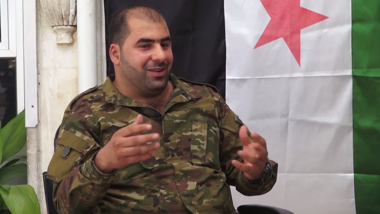 Azad Shabo, commander of the Azadî Battalion in northern Syria during the Syrian Civil War.